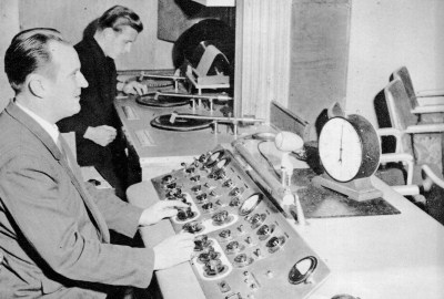 Recording studio of Suomen Filmiteollisuus. At the front recorder Kurt Vilja.